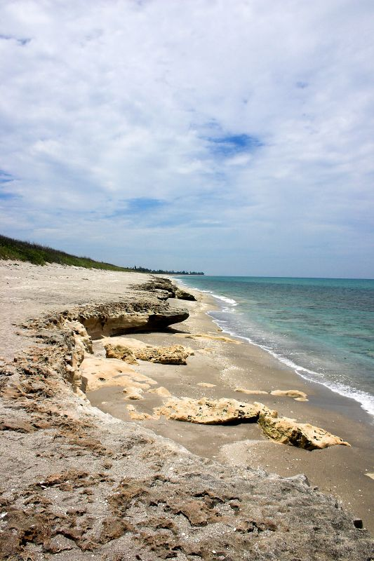 Jupiter Island, FL Canon 300D